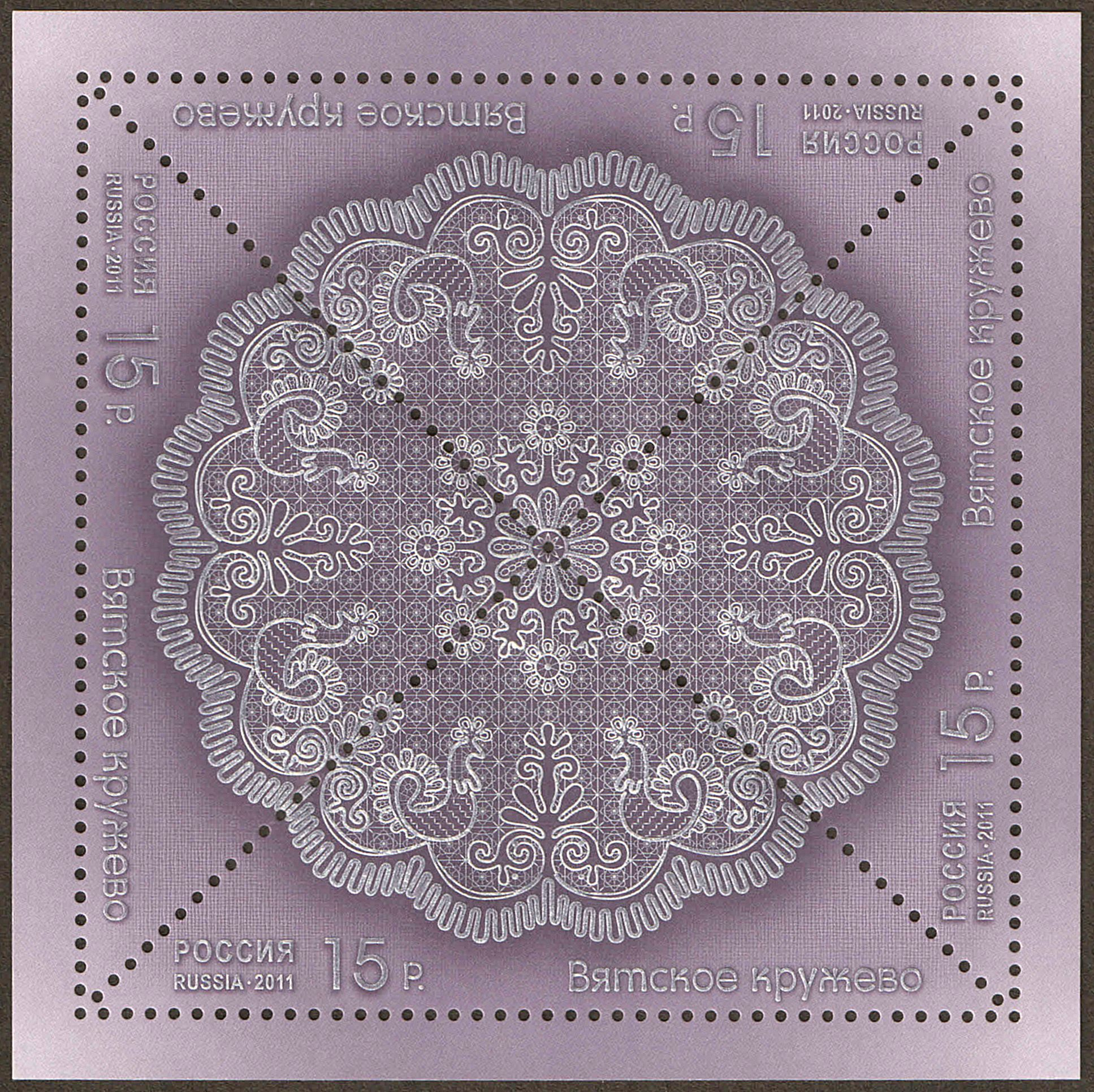 Decorative and Applied Arts of Russia (ongoing stamp series, issue I). The lace-making. The Vyatka lace, a bobbin lace made in Kirov Oblast, the centre of the handcraft is in Sovetsk town. The stamp of Russia, 15.00 Rubles, 12 December 2011, PTC Marka Catalogue No 1552, Michel No 1784. The triangular stamps were issued in the sheets of small format: 4 stamps in 1 sheet. Coated paper. Offset printing, intaglio printing. Perforation: comb 11½. Size of the stamp: 50×50×70 mm (35×70 mm). Size of the stamp sheet: 80×80 mm. Print run: 720,000 stamps.